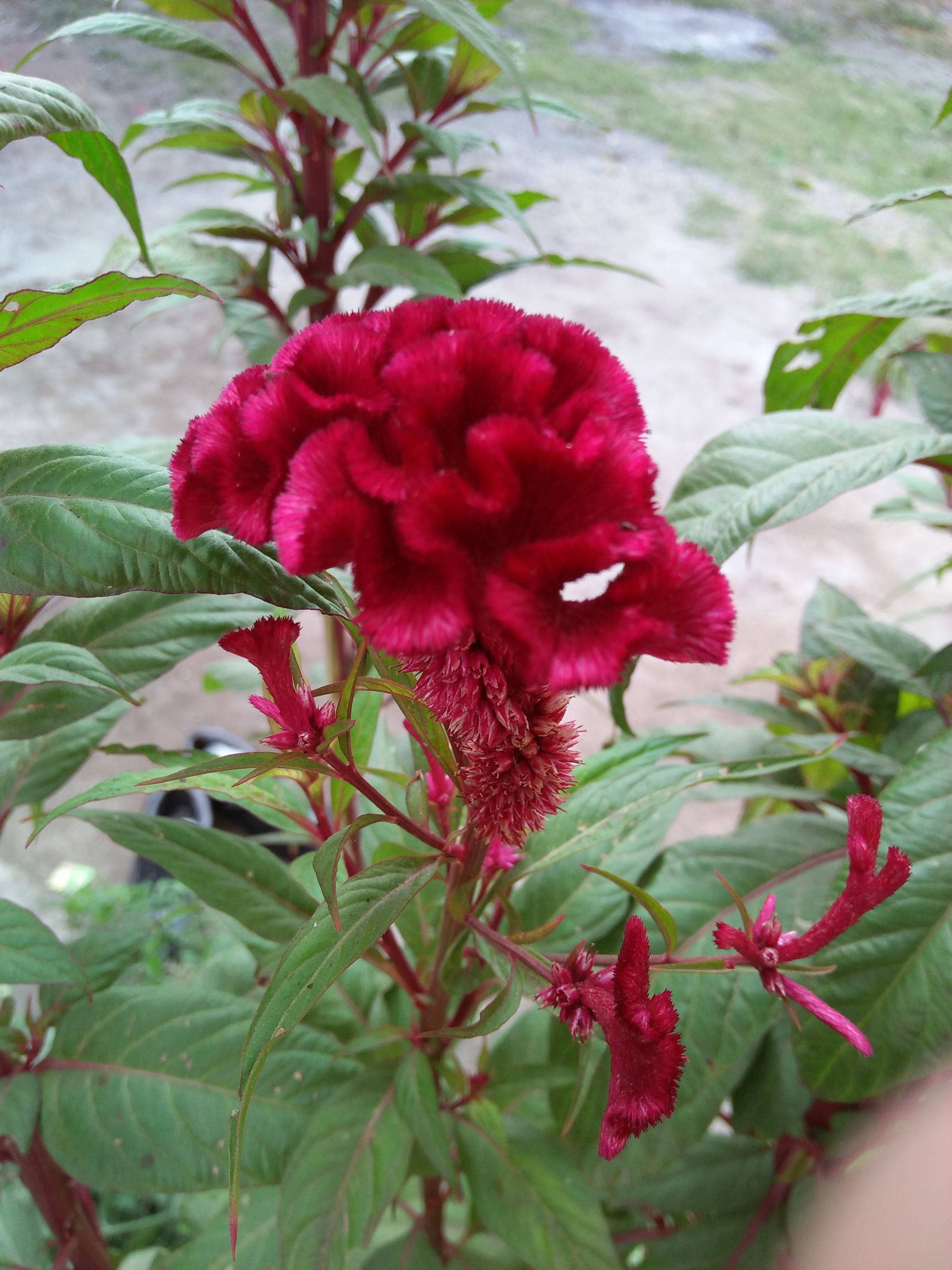 Celosia cristata Celosia cristata is a member of the genus Celosia, and is commonly known as cockscomb, since the flower looks like the head on a rooster (cock). The plants are hardy and resistant to most diseases, and grow equally well indoors or out, though the perfect place is one with no shade and a well drained soil, as the plant is susceptible to fungal diseases. The plant is used frequently as an ornamental plant indoors. Their leaves and flowers can be used as vegetables. They are often grown as foods in India, Western Africa, and South America.